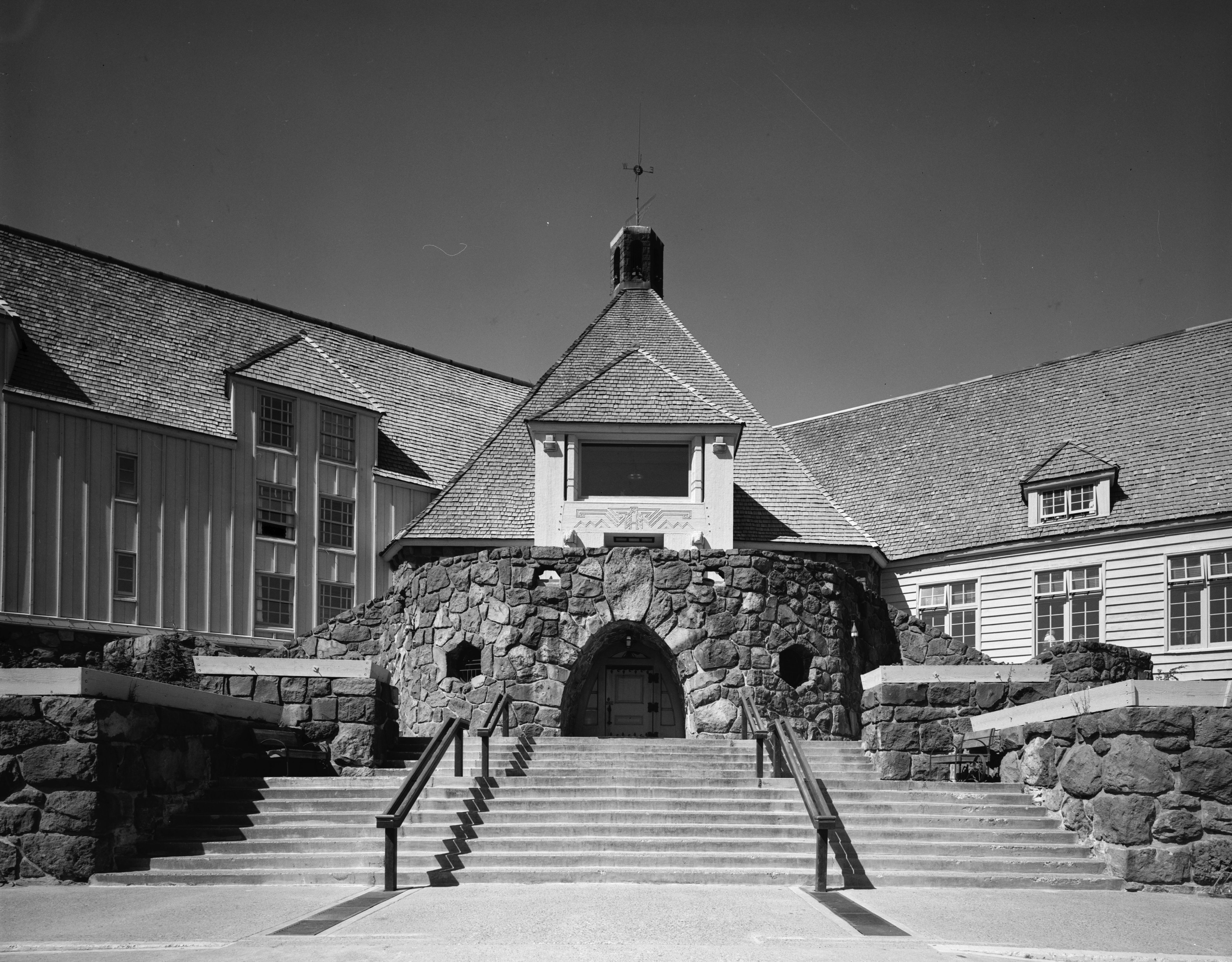 Timberline Lodge south (front) elevation. Head house with ground floor entrance, looking north.